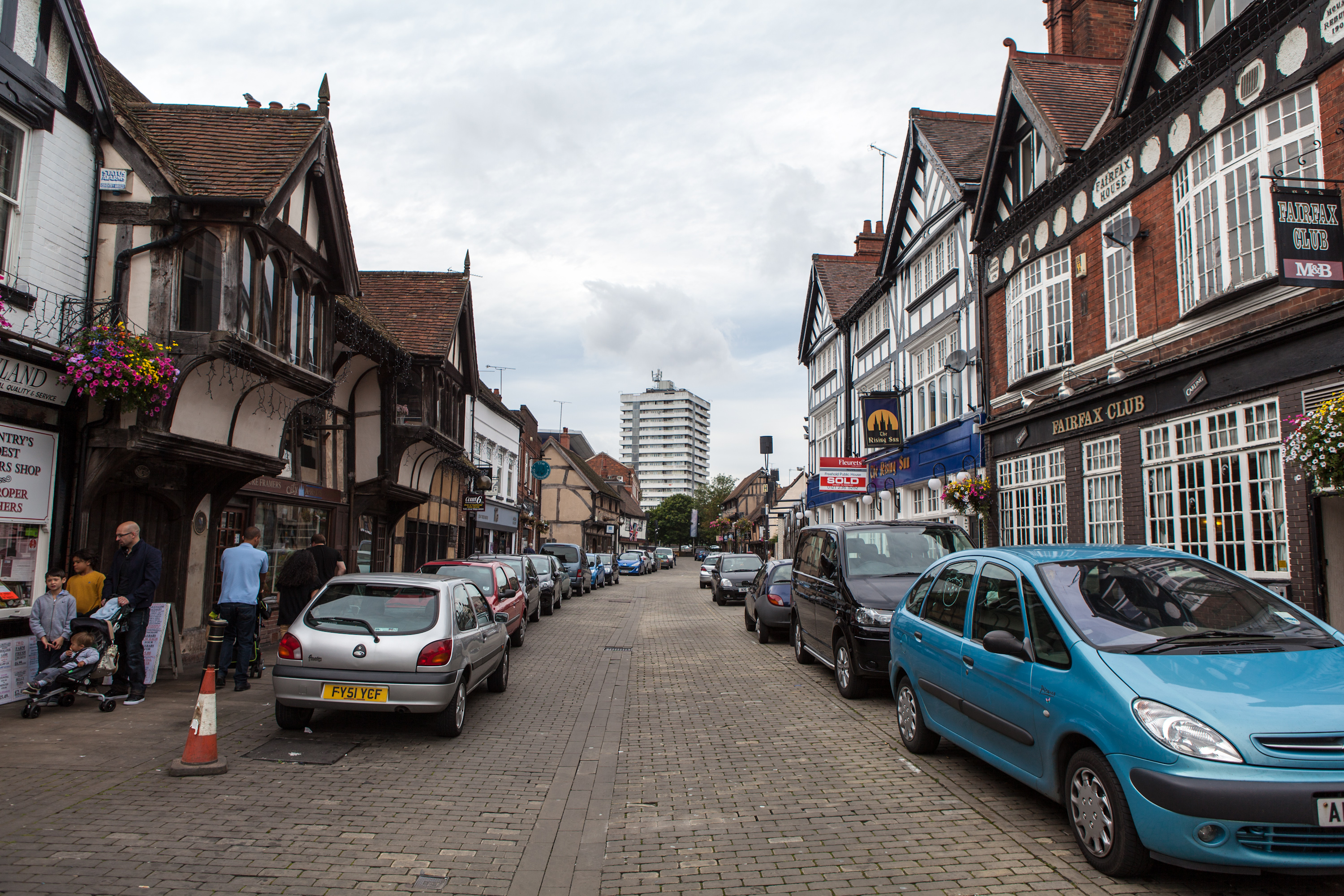 E3 - Historic Spon Street in Coventry, UK